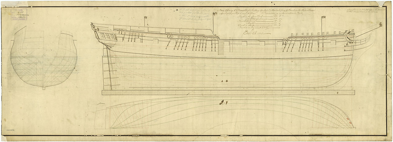 PERSERVERANCE 1781 lines